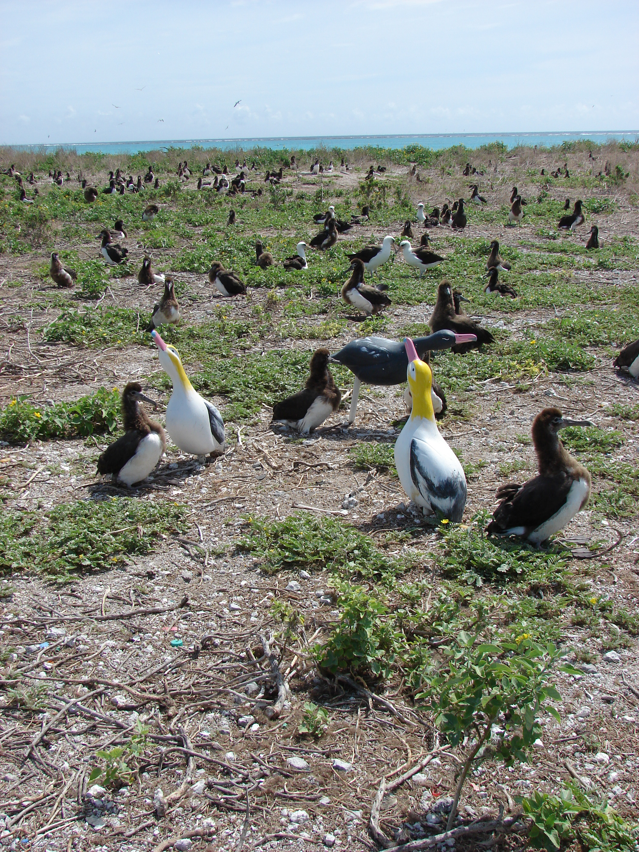 Tribulus cistoides (habit with Laysan albatross and short tailed albatross decoys). Location: Midway Atoll, Eastern Island